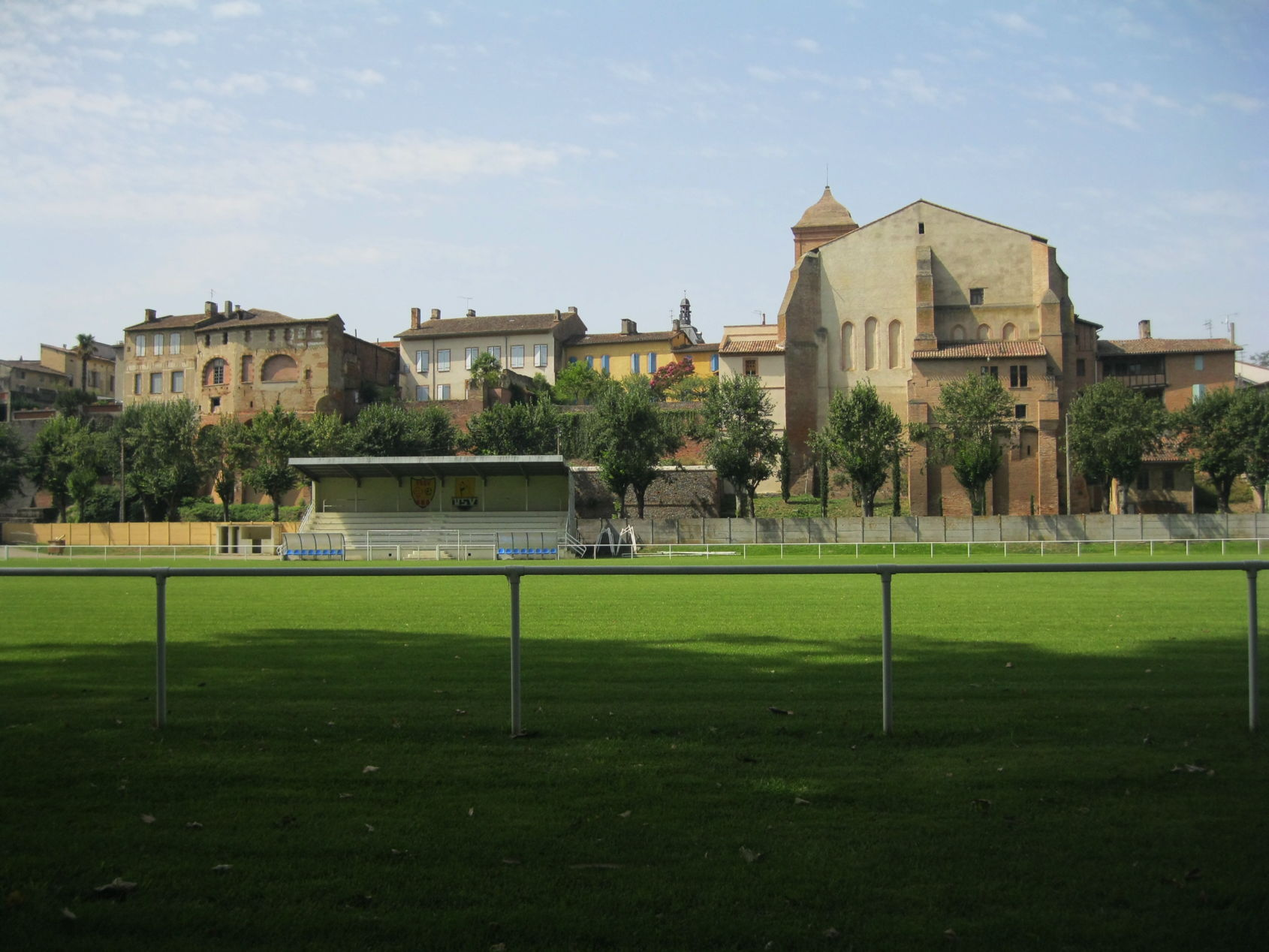 Verdun-sur-Garonne : rugby stadium and curtain wall in Tarn-et-Garonne department in France